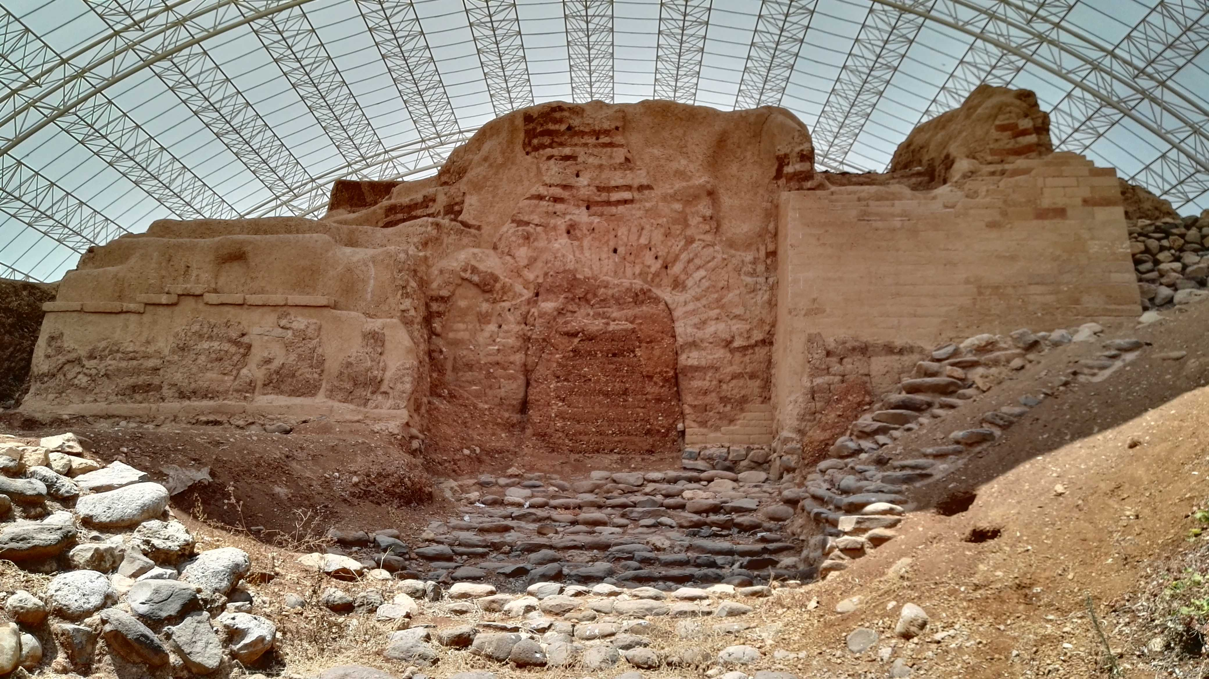 Tel Dan archaeological site, Israel.